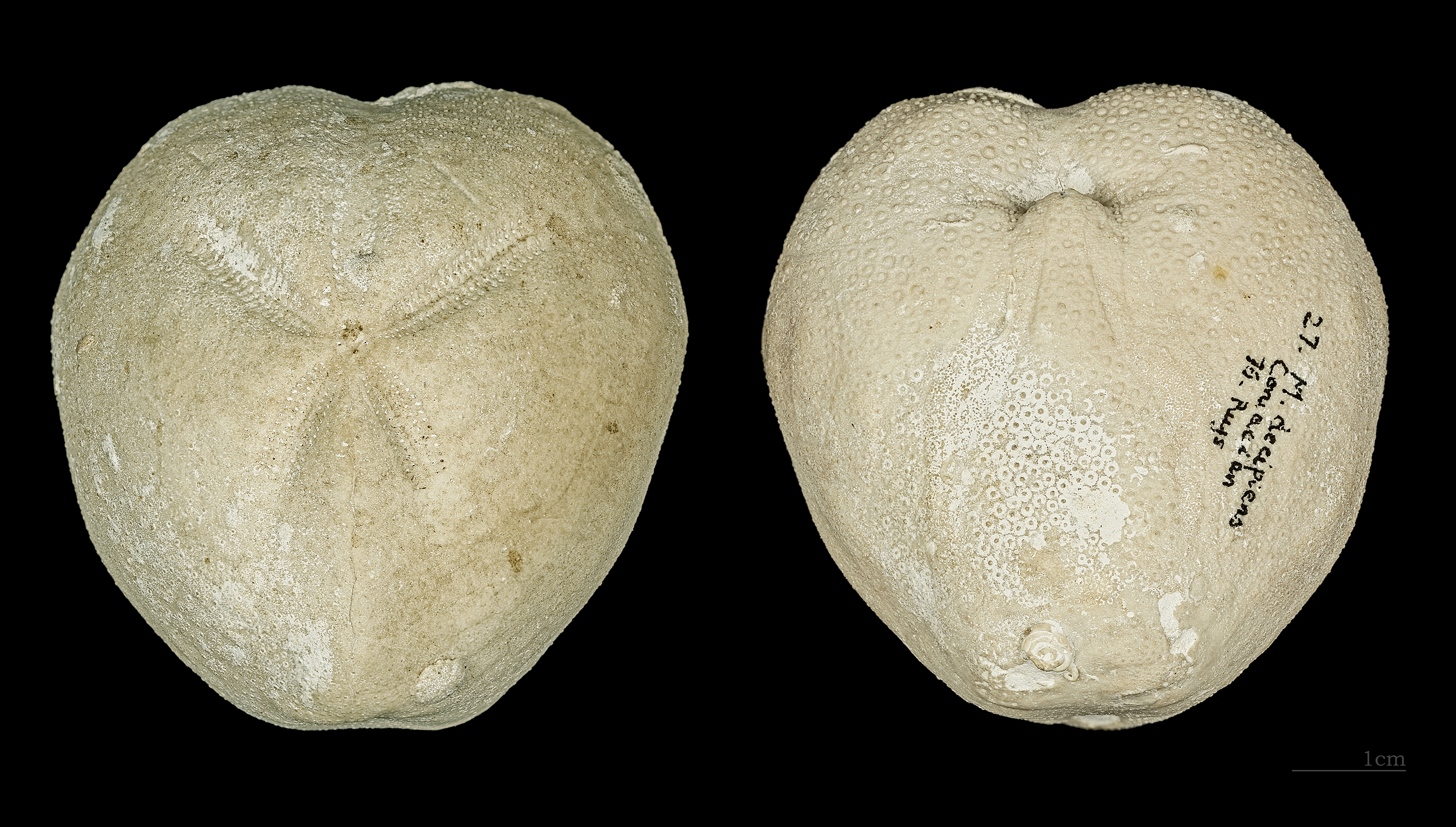 Micraster decipiens. Both sides Stage : Coniacian between 89.3 ± 1 Ma and 85.8 ± 0.7 Ma (million years ago).